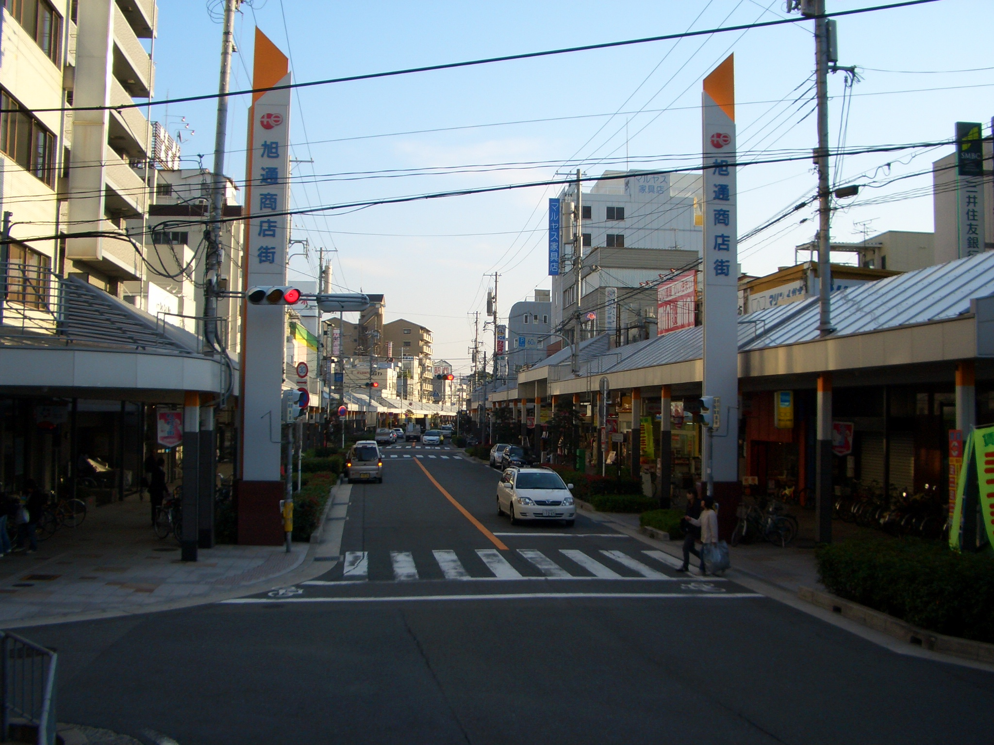 Asahi douri shopping street in Suita City,Osaka,Japan 旭通商店街 （大阪府吹田駅まえ）